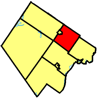 map of Lanark County Showing Beckwith Township